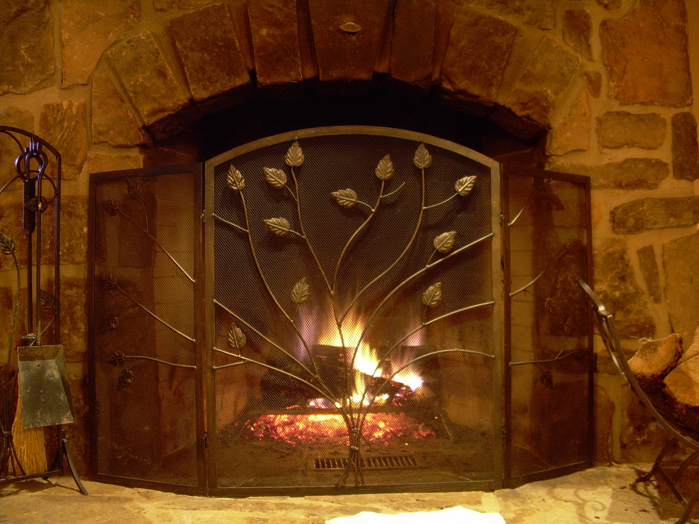 Photo of a stone fireplace.